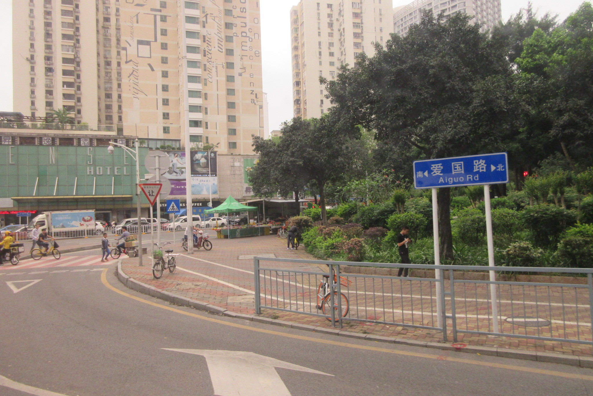 SZ 深圳 Shenzhen bus tour view 羅湖 Luohu 黃貝路 Huangbei Road in April 2017 文锦中路 2号